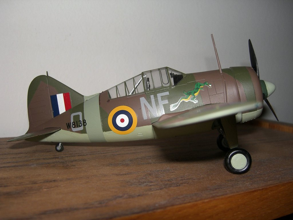 No.488 Squadron, RNZAF, Singapore, late 1941 ( photo of actual aircraft ) This kit was released by Tamiya in late September 2004. My first attempt at painting, and I was very amateur at it. This aircraft was flown by Noel Callan Sharp, who was born on 9 February 1922 in Auckland, New Zealand. He shot down three Japanese aircraft (Nakajima Ki-27, Mitsubishi A6M and Kawasaki Ki-48) during the Japanese invasion of Malaya before being shot down on 17 January. The Buffalo was repaired and flown to Palembang, South Sumatra, where it was destroyed in a bombing raid on 7 February 1942. Sharp was killed in action on 20 February 1942, while flying a Hawker Hurricane with No. 605 Squadron RAF. He was 20 years old.